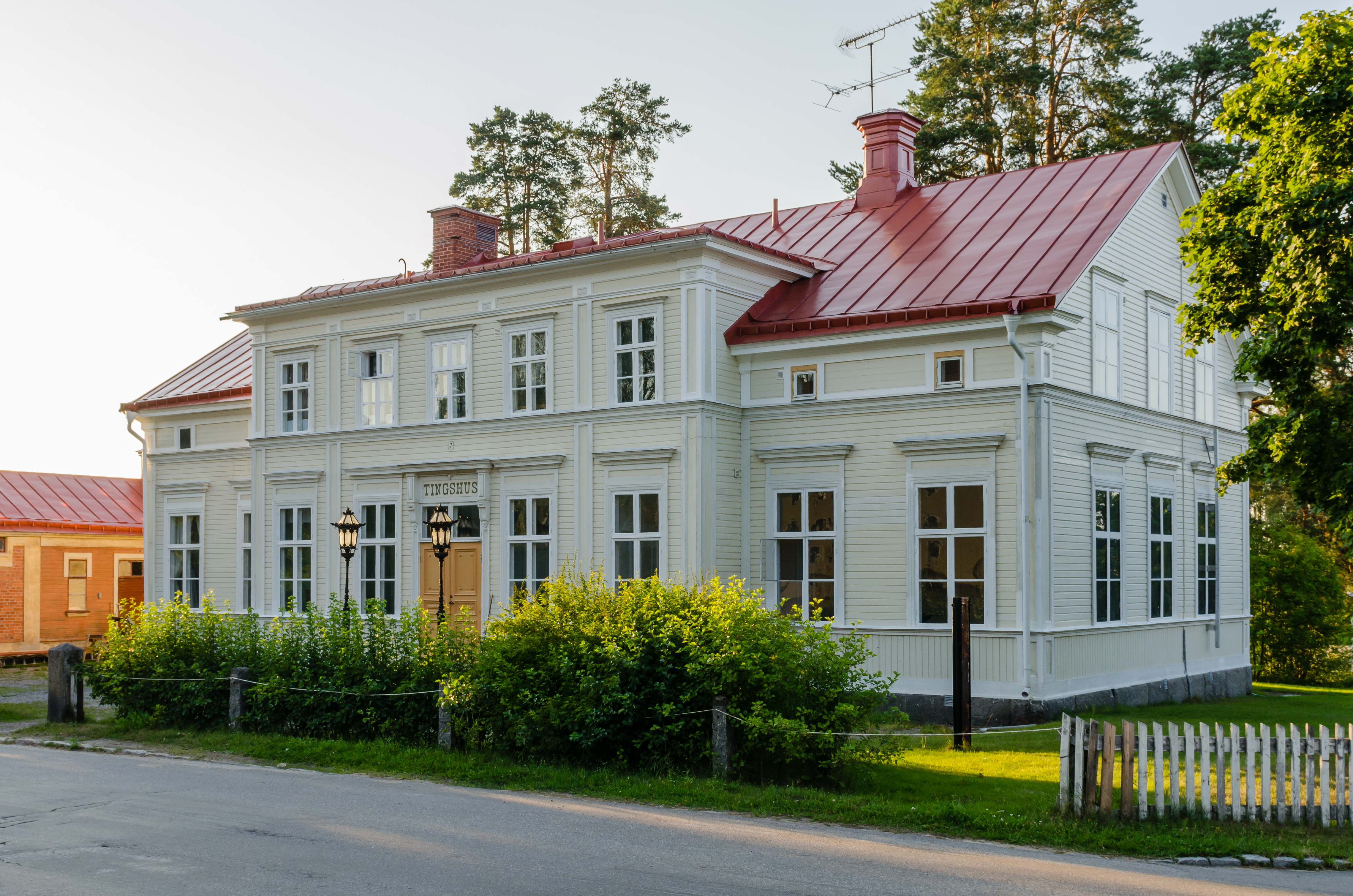 Delsbo tingshus, a historic court house in Delsbo, Hudiksvall Municipality.